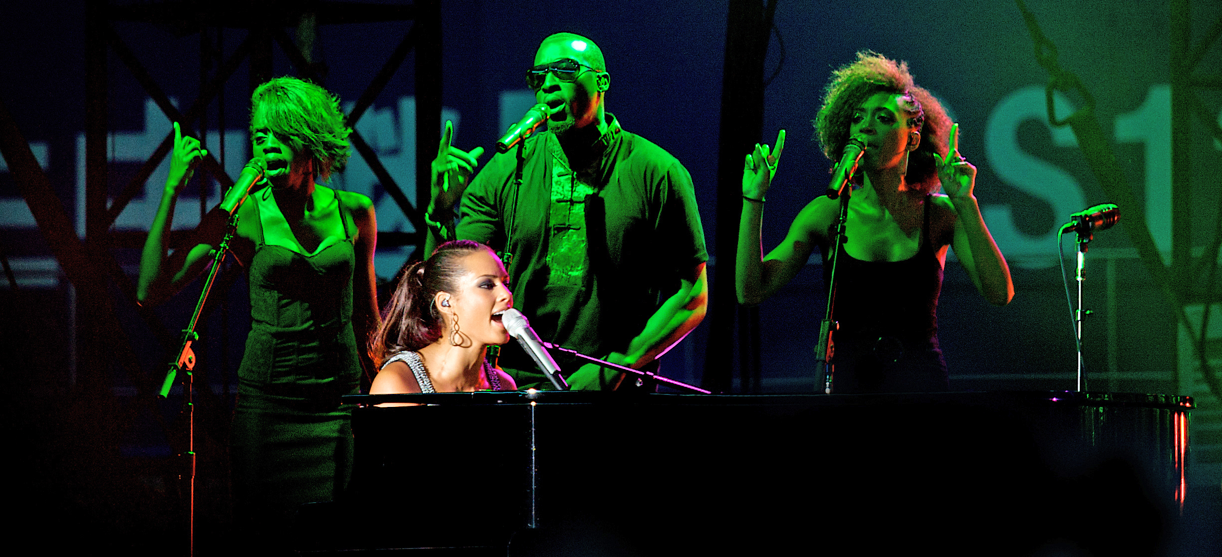 Alicia Keys performing at the 2008 Summer Sonic Festival on the piano in Tokyo, Japan (cropped).